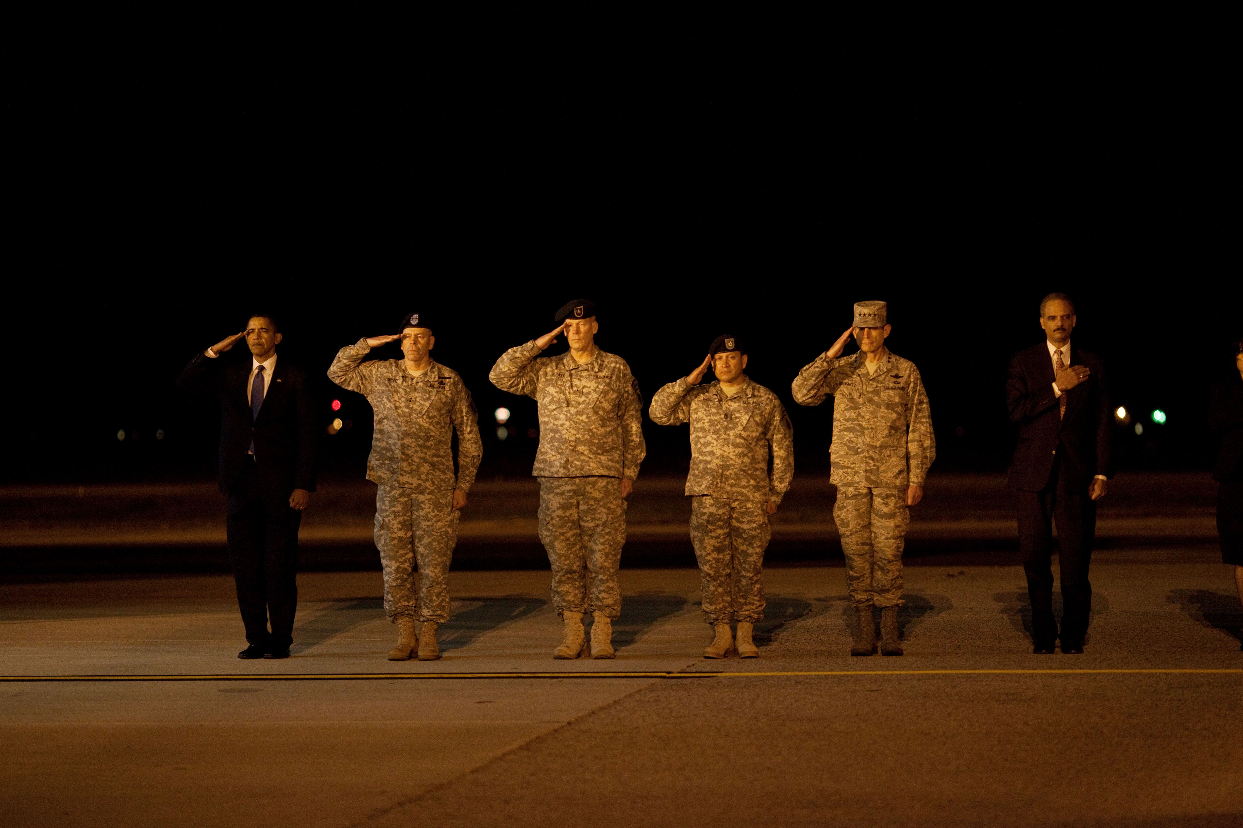 President Barack Obama, Eric Holder and US officers attends a ceremony at Dover Air Force Base in Dover, Del., Oct. 29, 2009, for the dignified transfer of 18 U.S. personnel who died in Afghanistan.